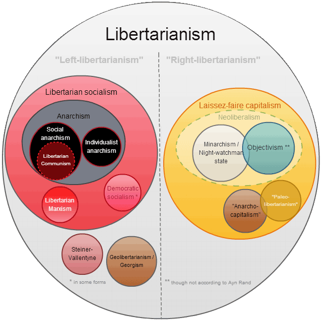 Diagram illustrating how groups labeled "libertarian" relate to one another.